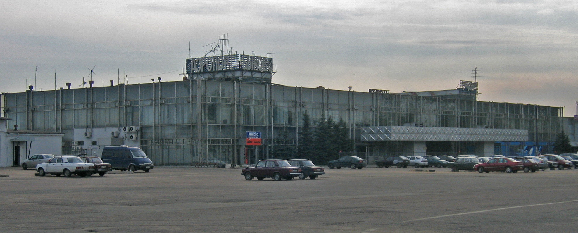 Former Bykovo Airport near Moscow, see Быково (аэропорт)